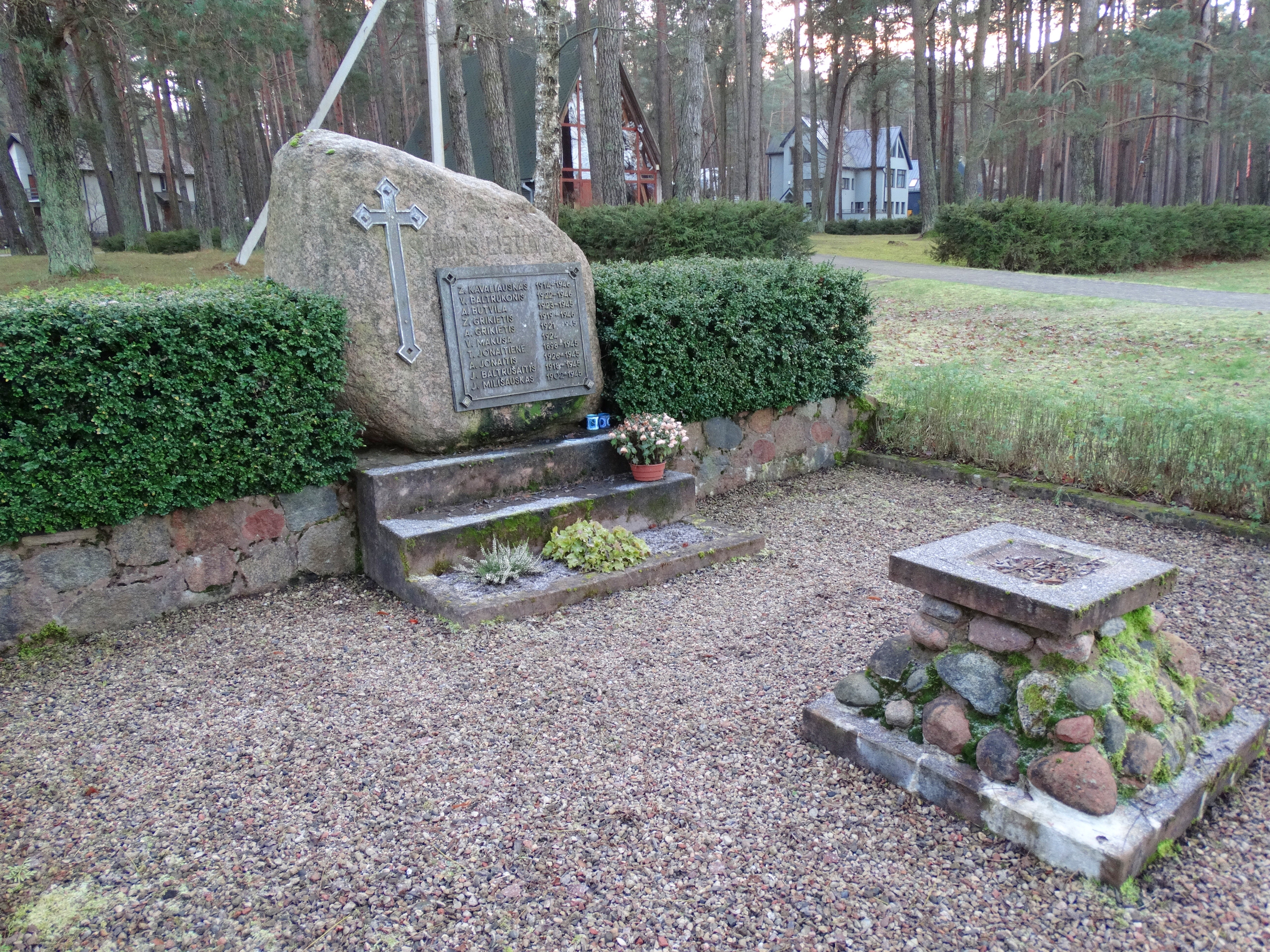 Memorial stone, Kačerginė, Kaunas District, Lithuania